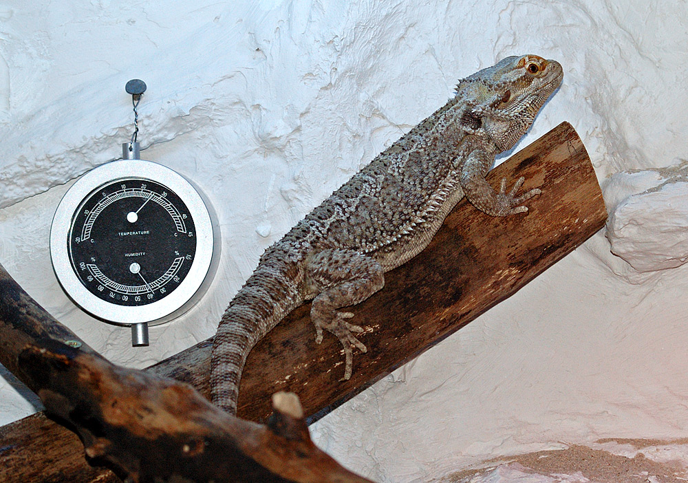 This image shows a bearded dragon in a terrarium.